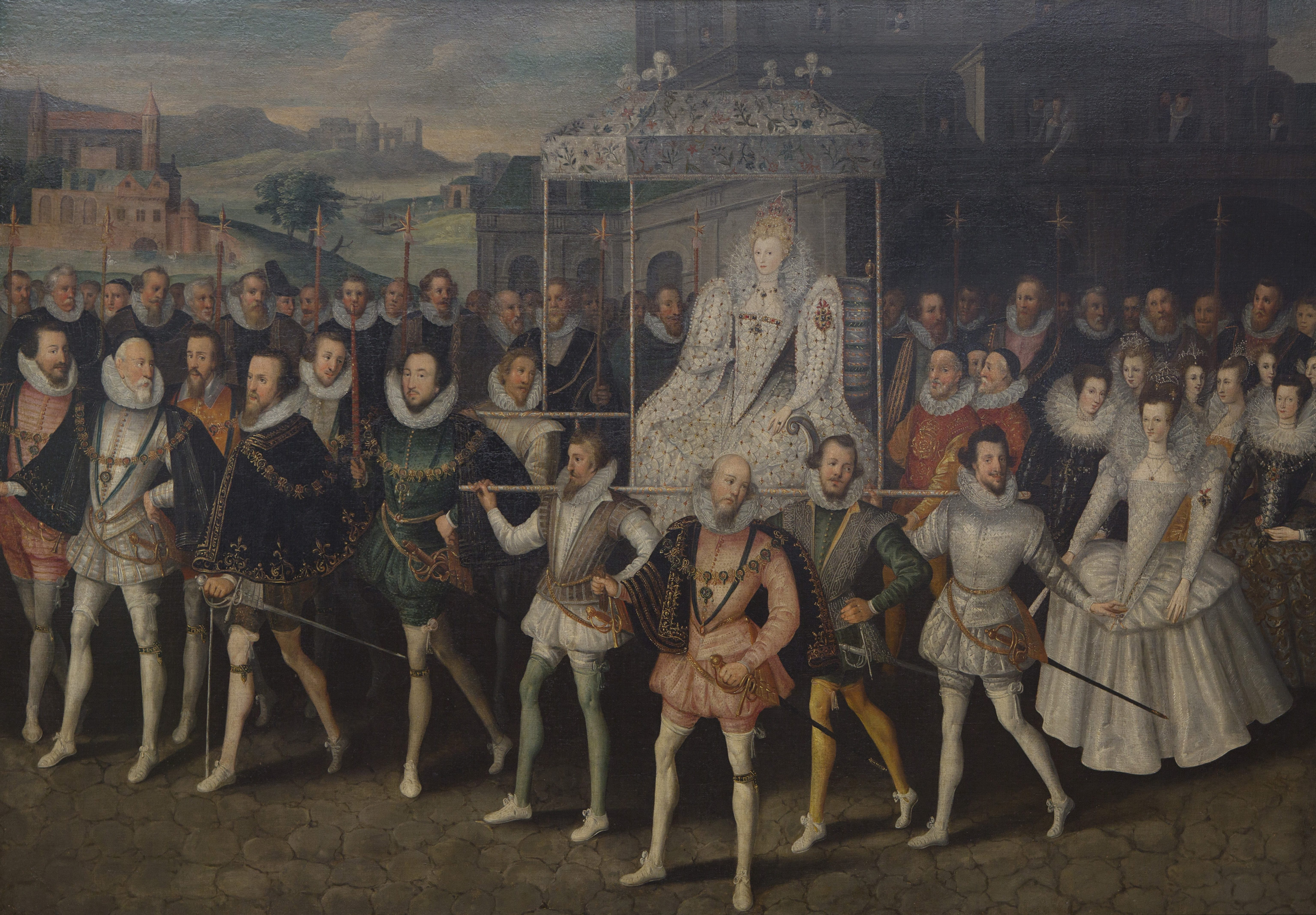 Procession Portrait of Elizabeth. Queen Elizabeth I of England preceded by the Knights of the Garter. From left: Edmund Sheffield, later Earl of Mulgrave; Charles Howard, Lord Howard of Effingham and Lord Admiral; George Clifford, Earl of Cumberland; George Carey, Lord Hunsten; unknown knight, possibly Robert Radcliffe, Earl of Sussex; and Gilbert Talbot, Earl of Shrewsbury, carrying the Sword of State. In the foreground is Edward Somerset, 4th Earl of Worcester, Master of the Horse. Of the four men carrying the canopy only the one in white on the far right has been identified: Worcester's eldest son, Lord Herbert. Source: Strong, Roy. Gloriana. Thames and Hudson, 1987, pp. 154-5.